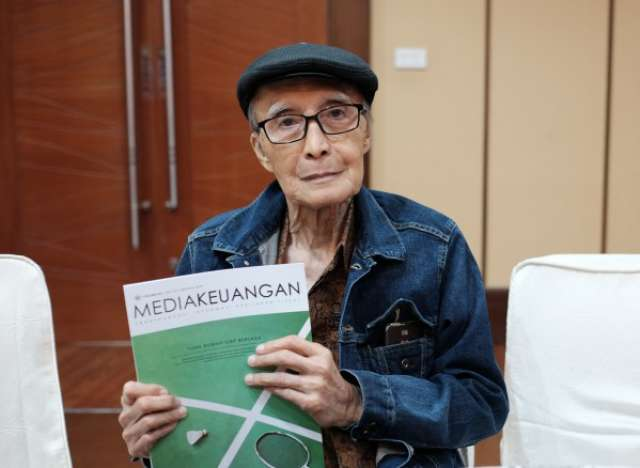 Sapardi Djoko Damono, an Indonesian writer and poet was holding the Finance Media Magazine of the Ministry of Finance of the Republic of Indonesia.